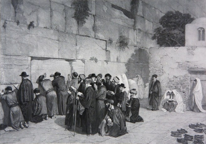 "Jews in front of the Wall of Solomon".